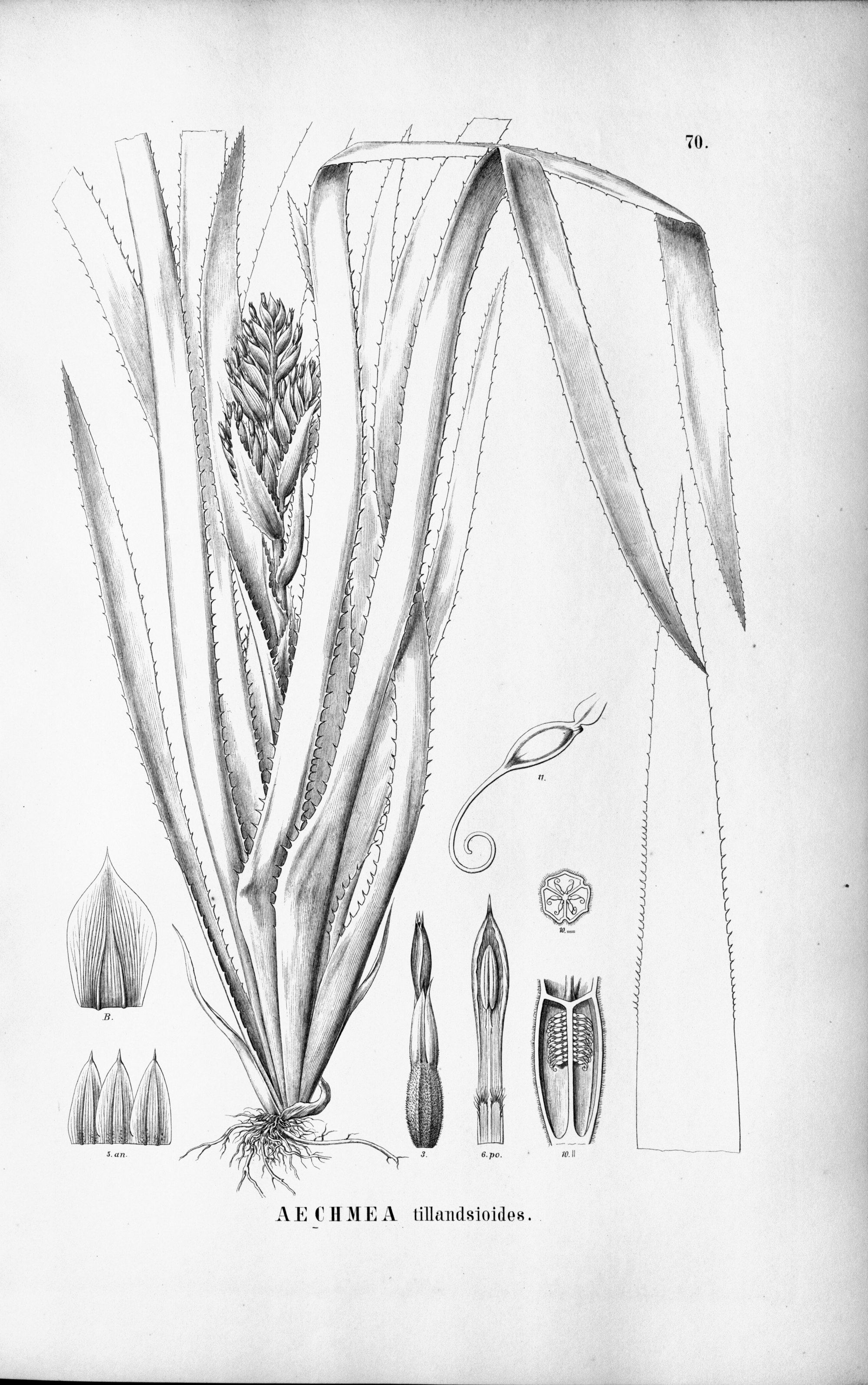 Illustration of Aechmea tillandsioides